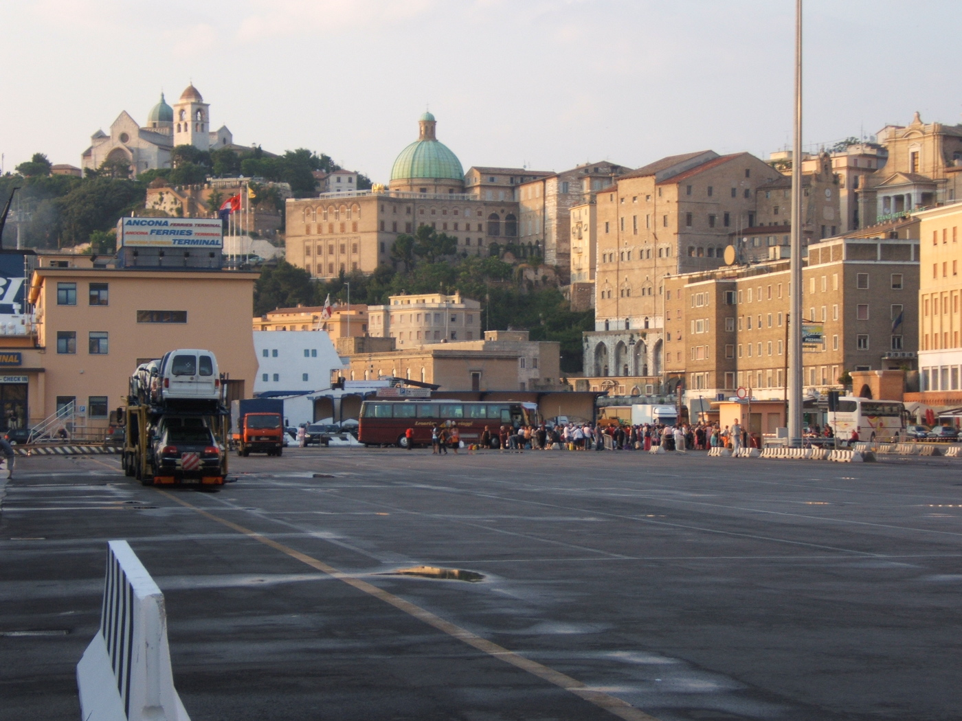 Ancona, Marche, Italy